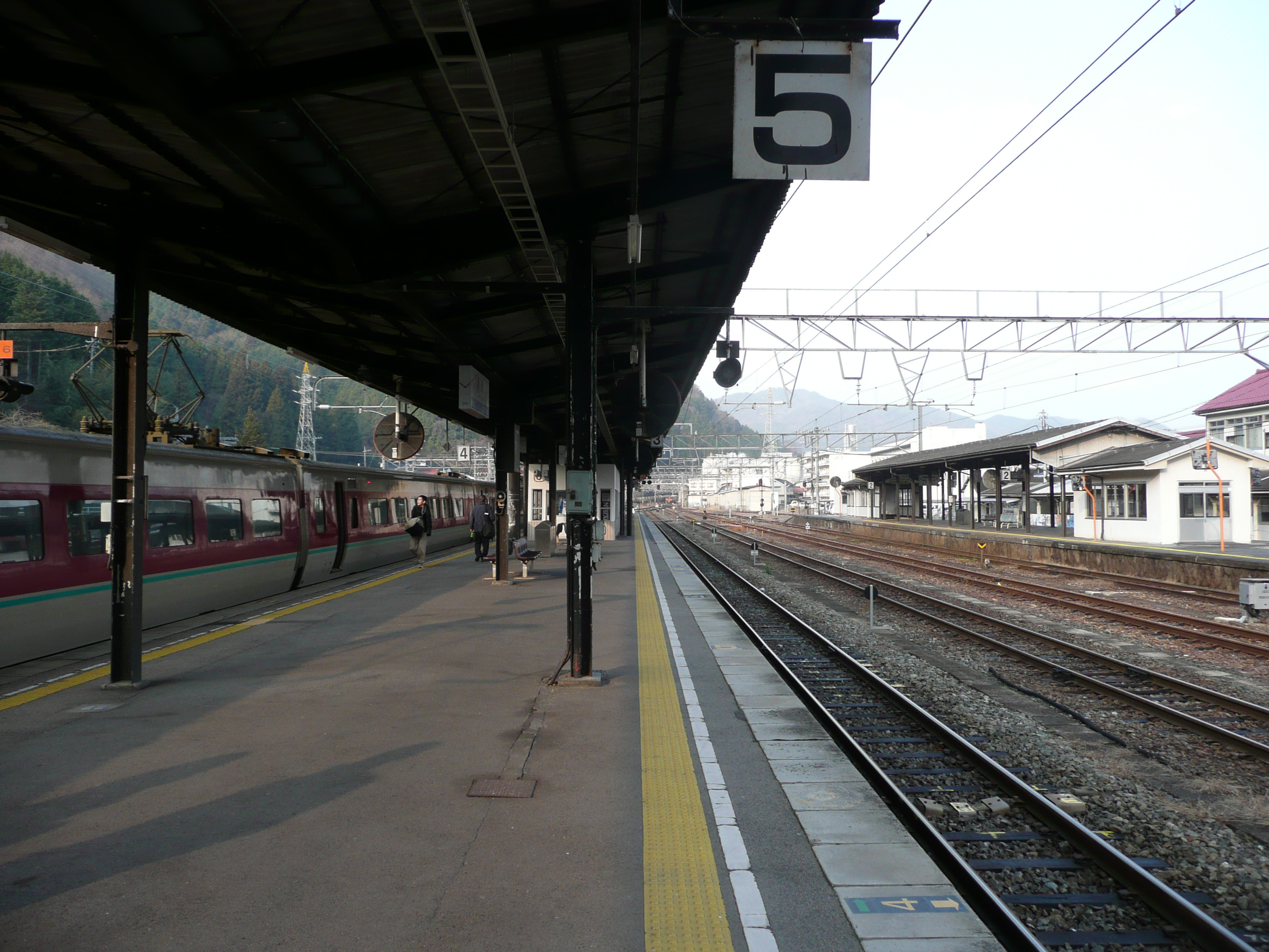 3番線ホーム「米子、出雲市方面」